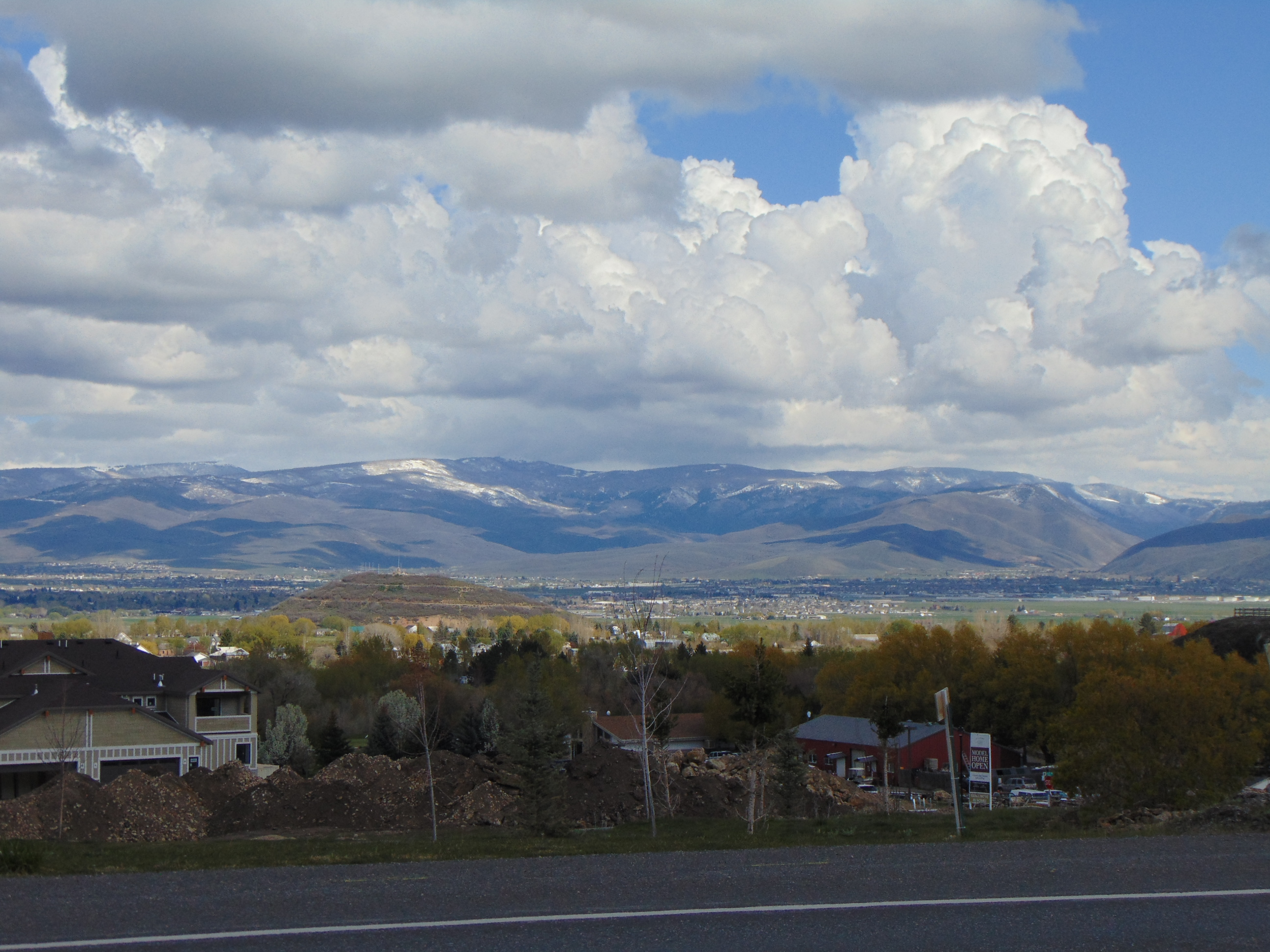 Looking east across Midway and the Heber Valley toward Heber City and Daniel from Utah State Route 222 in front of the Zermatt Resort in Midway, Utah, April 2016.